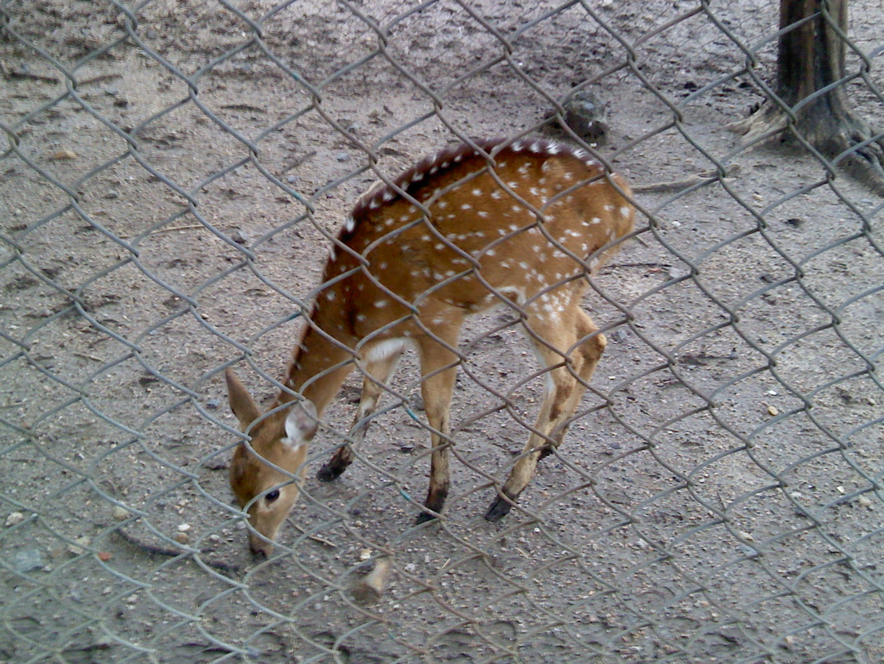 A little spotted deer at Maharajbagh zoo.